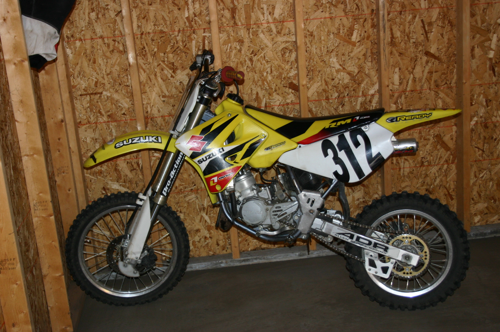 the rm beast / we rode earlier and were just taking some pics